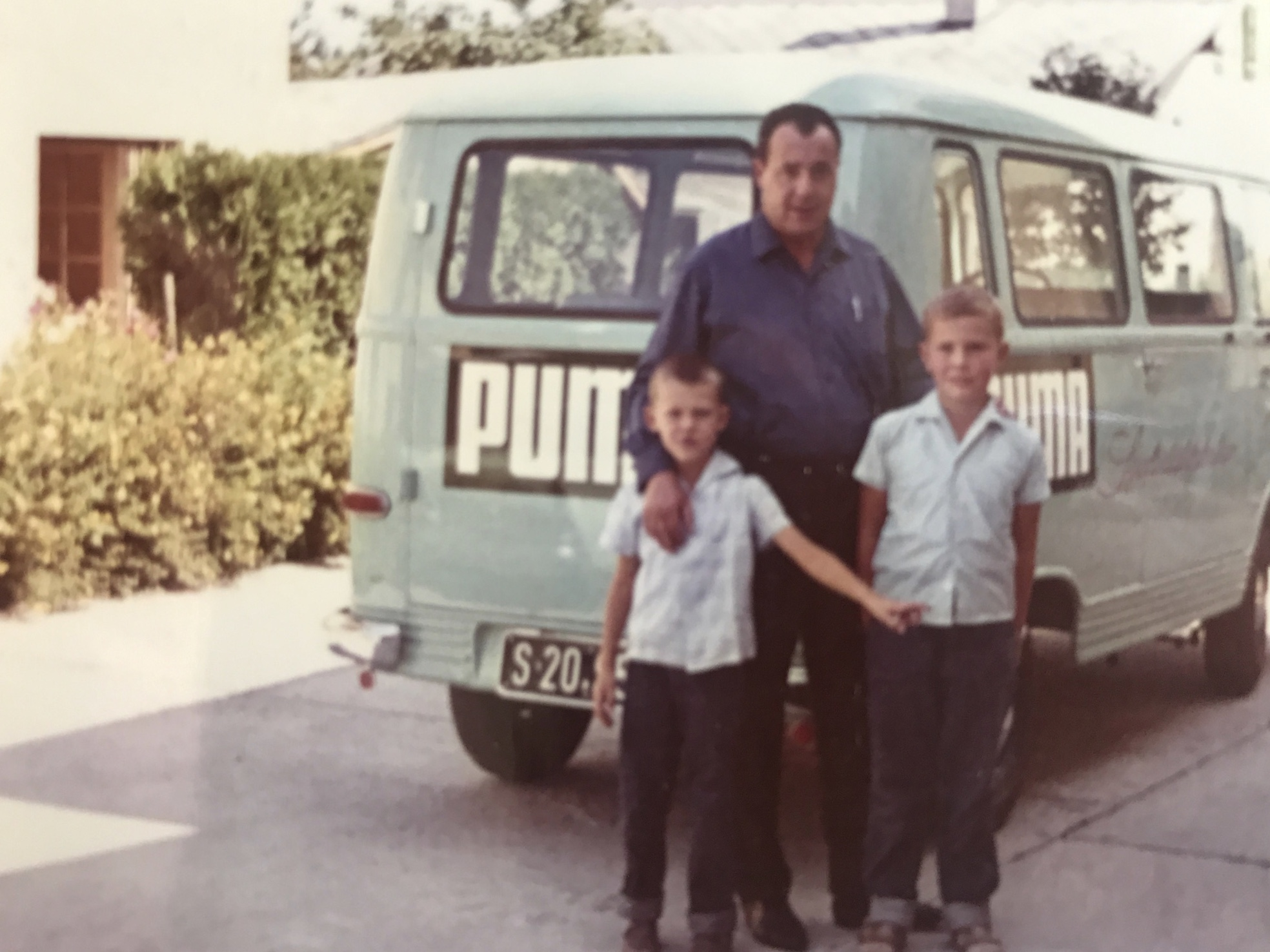 Armin Dassler 1964 in Salzburg with his two sons